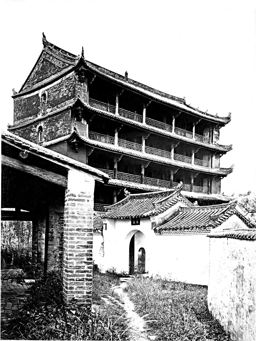 The Five-Story Pogoda in Canton, China. (Album of Hongkong Canton Macao Amoy Foochow : vol.1)